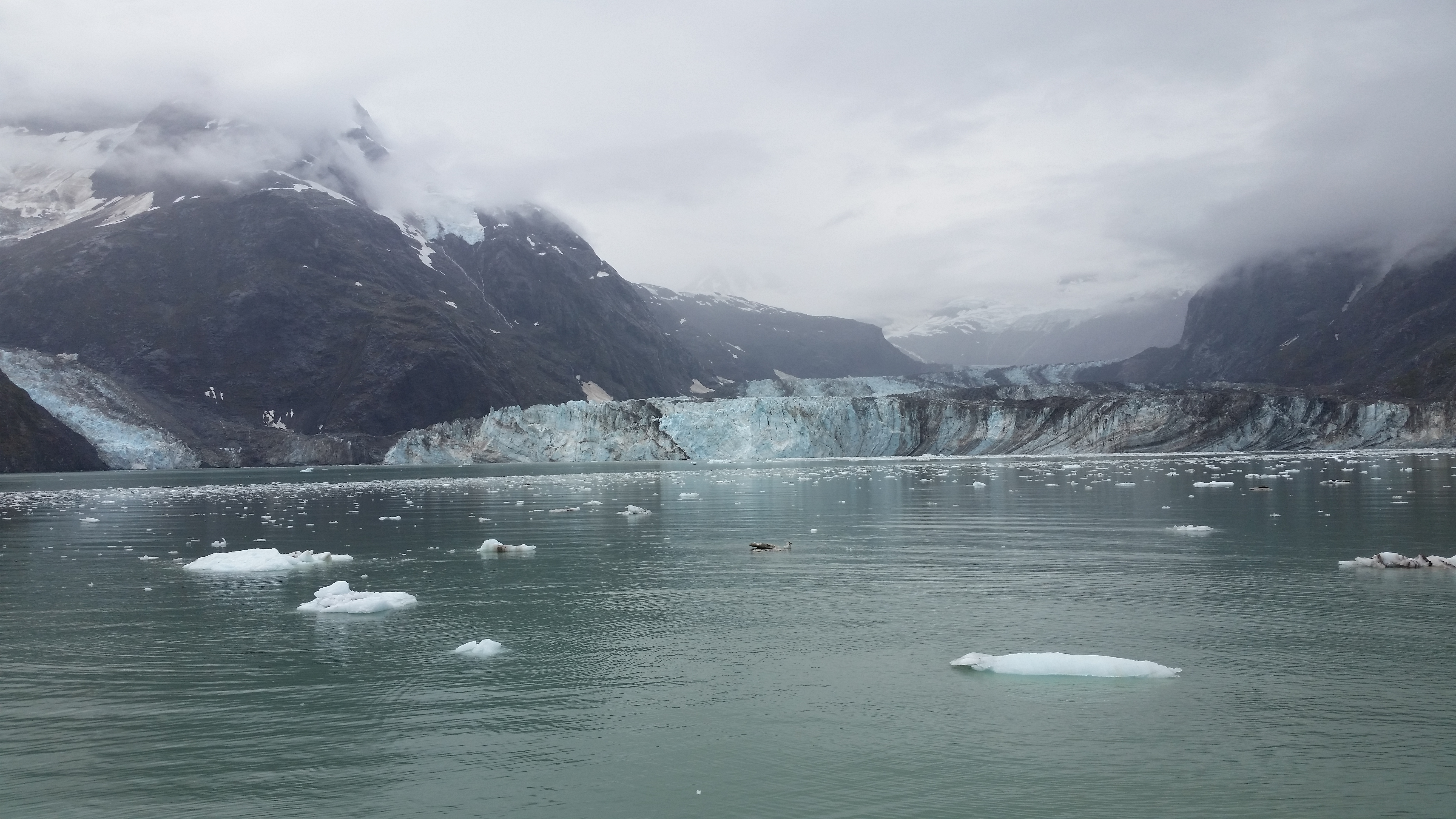 Gilman and Johns Hopkins Glaciers - Glacier Bay National Park